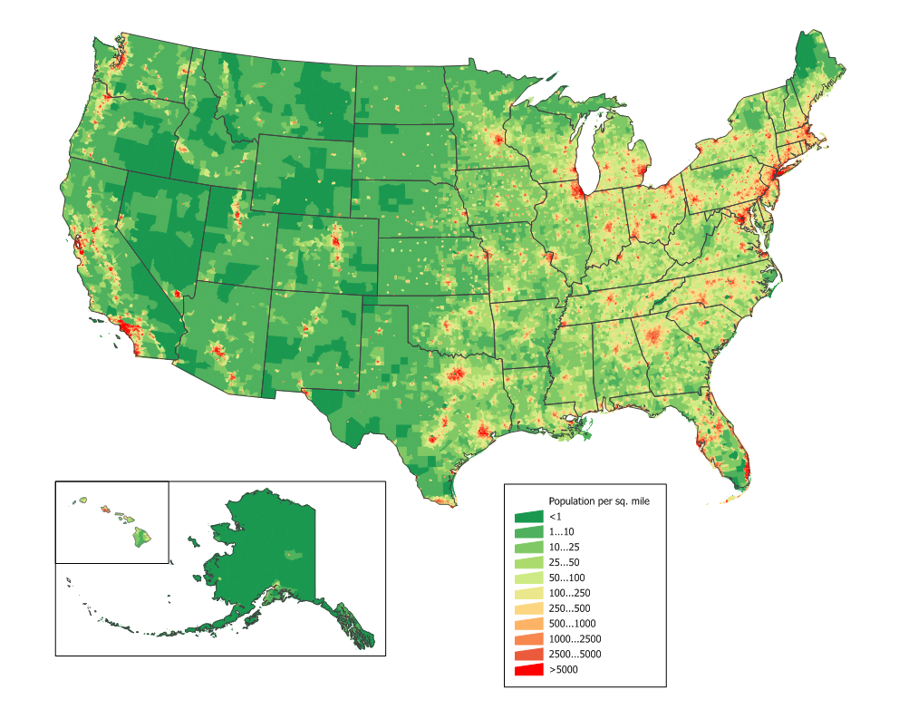 United States population density map based on Census 2010 data. See the data lineage for a process description. Also see U.S. state population maps.